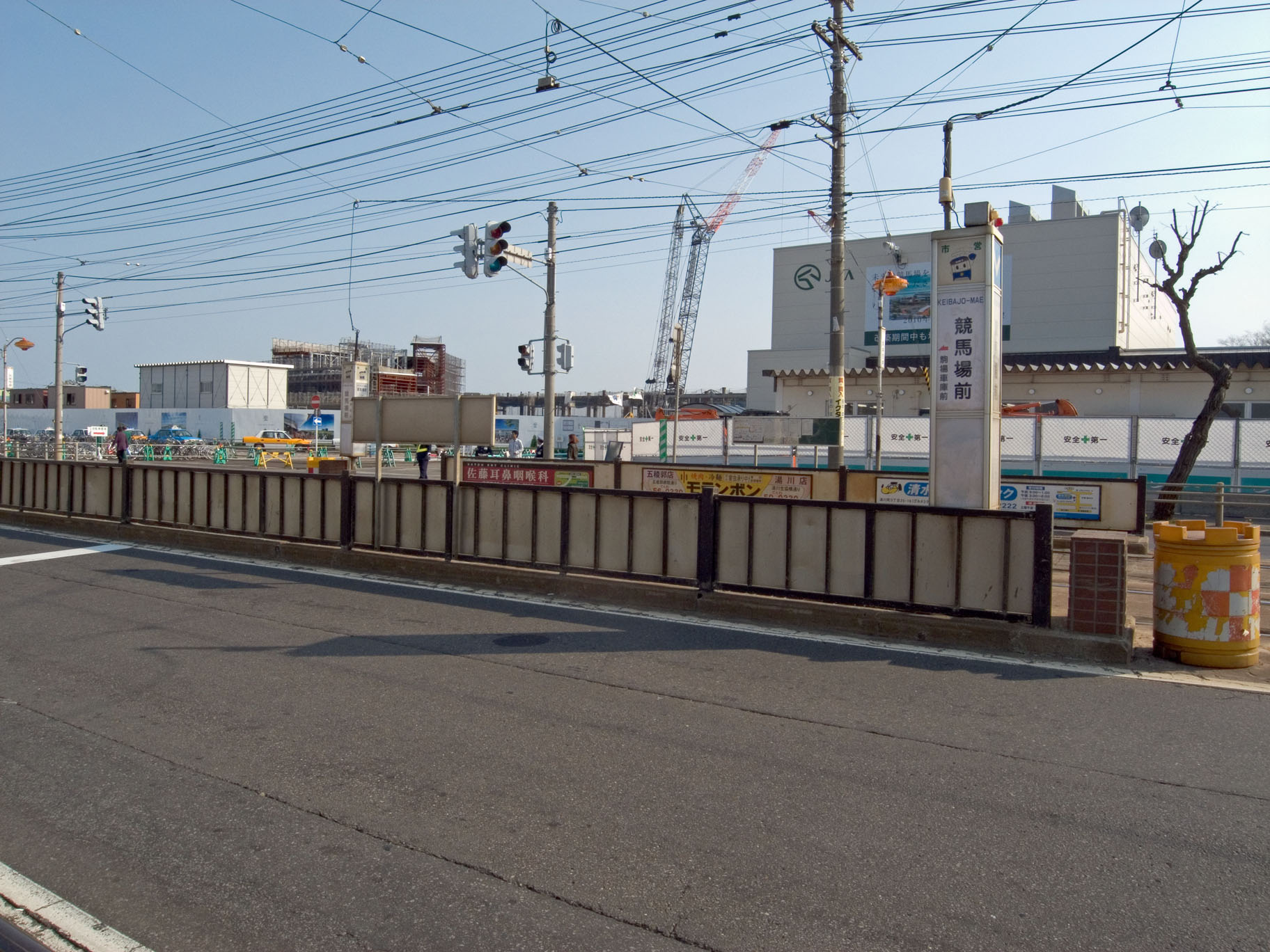 Keibajyo Mae station in Hakodate tram, Hokkaido, Japan